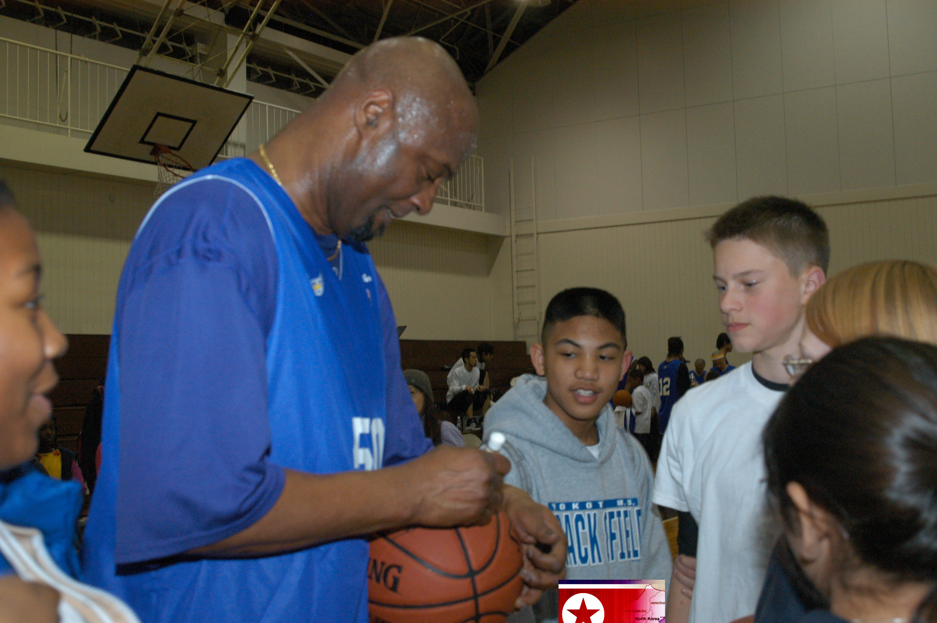 YOKOTA AIR BASE, Japan -- Joe "Jellybean" Bryant, father of Kobe Bryant and coach of the Tokyo Apache basketball team, takes time to sign autographs and talk to fans after the game Feb. 7 at the Samurai Fitness Center. Bryant also played during the last half of the game. Tokyo Apache, a Japanese professional basketball team, took on the Yokota Warriors varsity team here and walked away with the win, 96 - 74, while approximately 200 Yokota members looked on. (U.S. Air Force photo by Mark Allen)